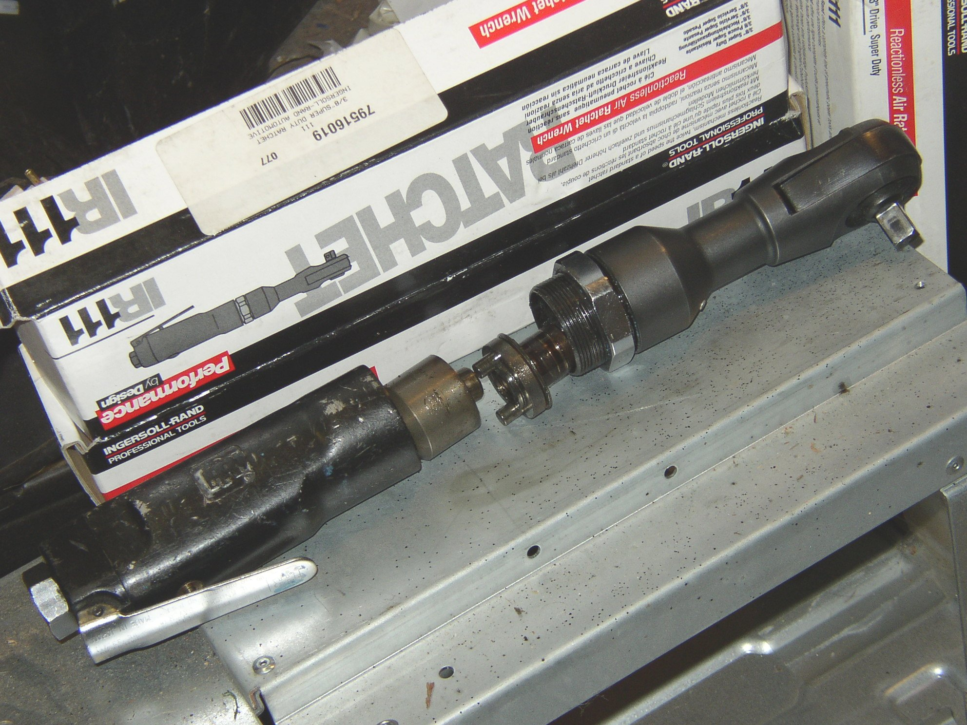 The insides of my IR111 to demonstrate impact mechanism.